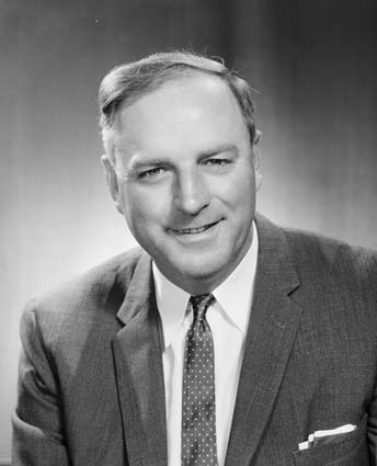 A 1962 black and white portrait of Kim Beazley, MP for Fremantle